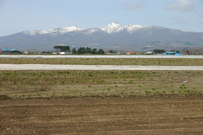 Mount Kombu (Kombudake) as seen from the National Road 230